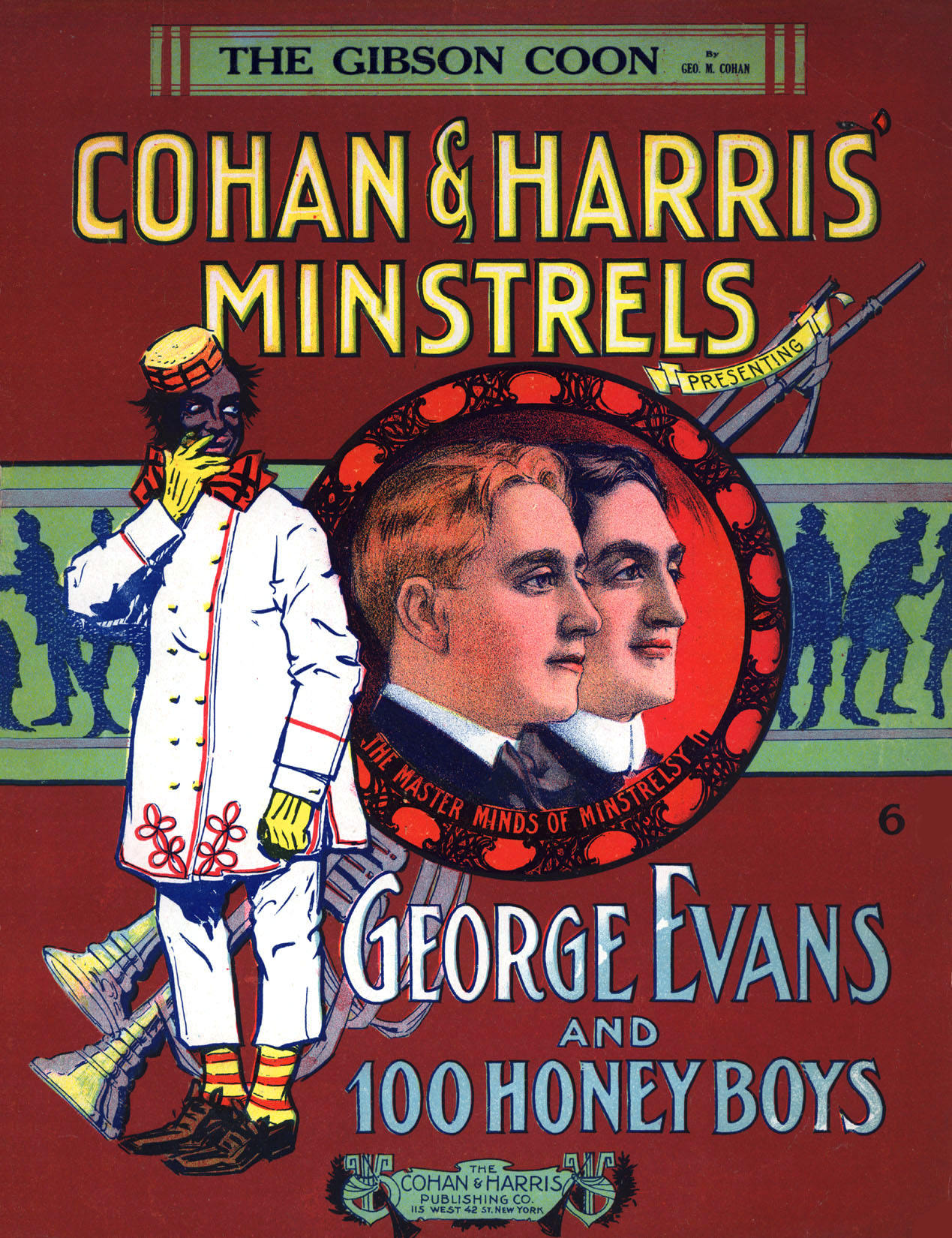 Sheet music cover "The Gibson Coon", Cohan & Harris Minstrels; George Evans and 100 Honey Boys. Artwork depicts profile head portraits of George M. Cohan and Sam Harris, and standing depiction of George "Honey Boy" Evans in blackface minstrel makeup & costume.